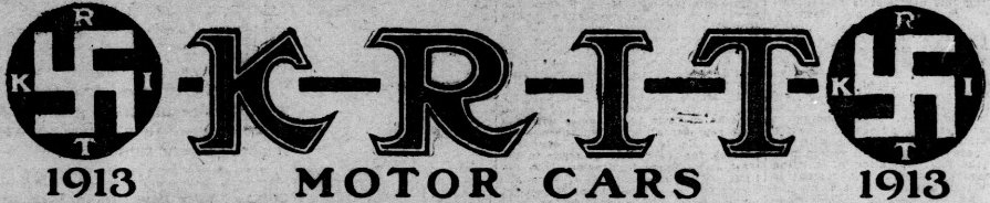 Header to an advertisement for K-R-I-T Motor Car Company in 1913